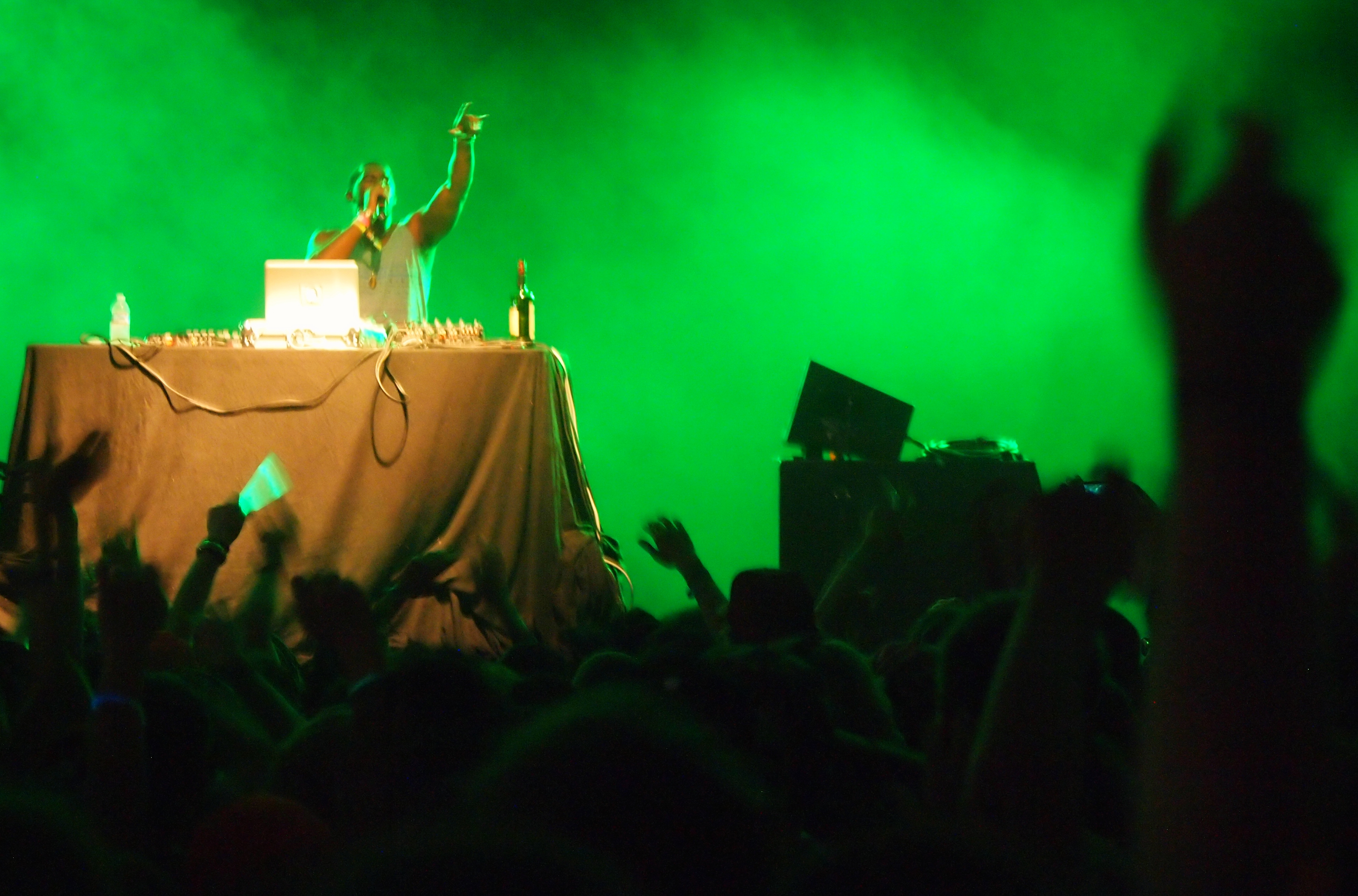 Cali-bred DJ Flying Lotus performs a late-night set Friday at Bonnaroo.